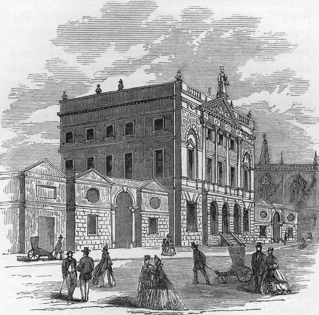 Engraving of Bath Guildhall